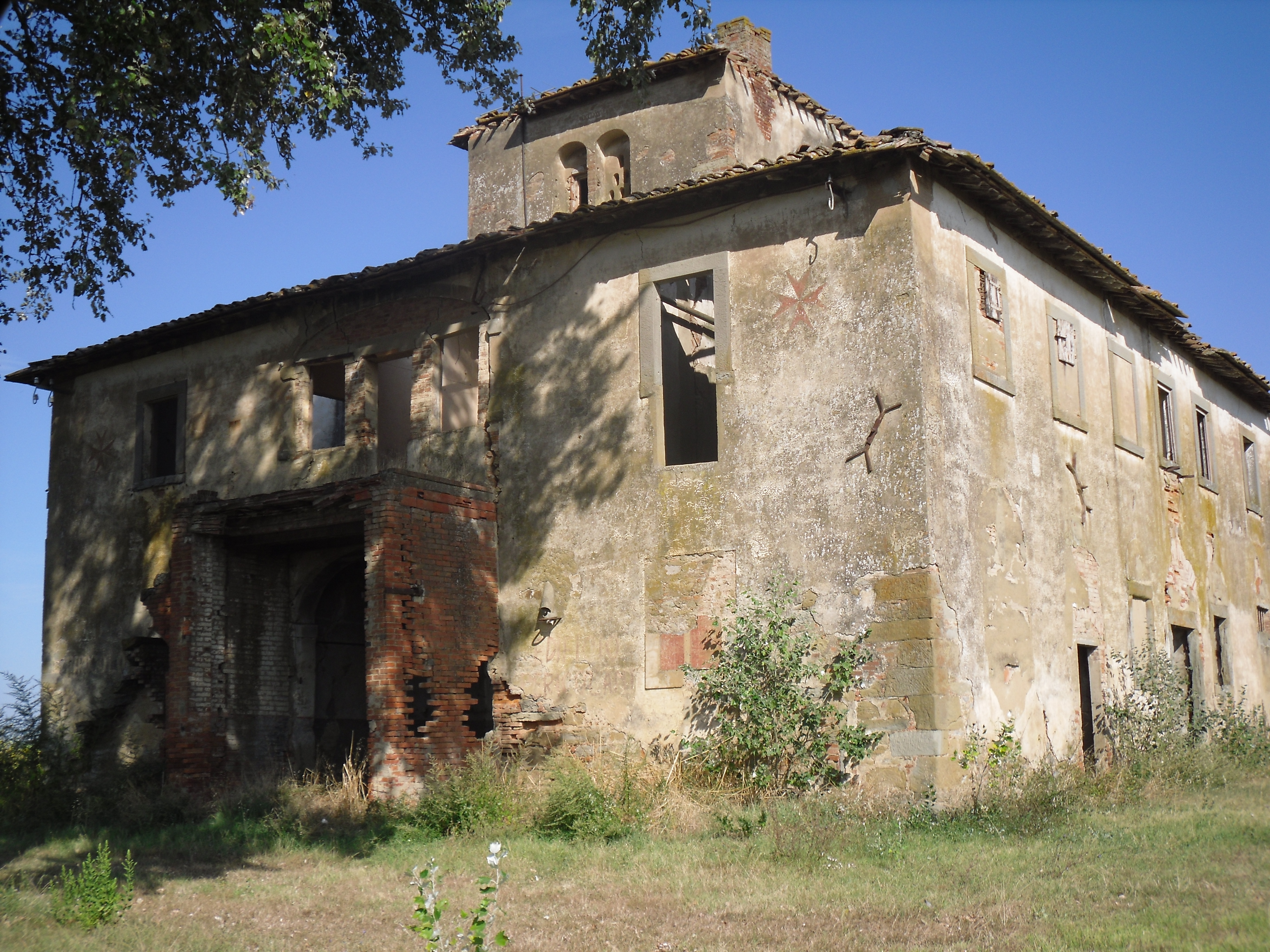 A "casa leopoldina", a farm house built in Tuscany in the XVIII century under Grand Duke Peter Leopold (future Leopold II, Holy Roman Emperor), in Val di Chiana, near Foiano della Chiana, Italy.